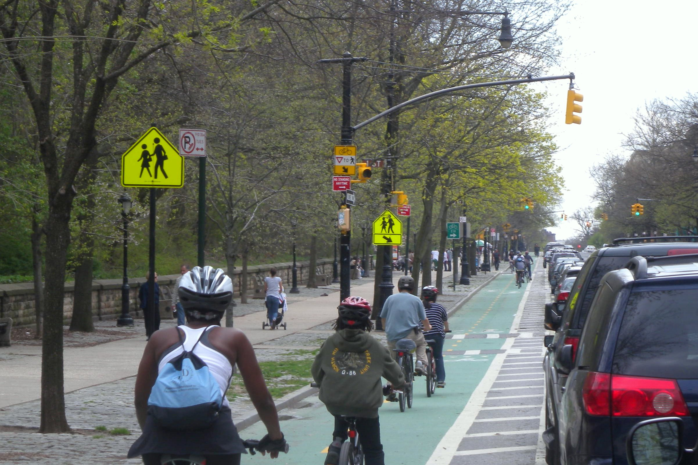 Looking south at Prospect Park West protected bike lane on a cloudy midday.